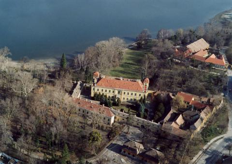 Tata, Esterházy palace, Hungary, aerialphotography